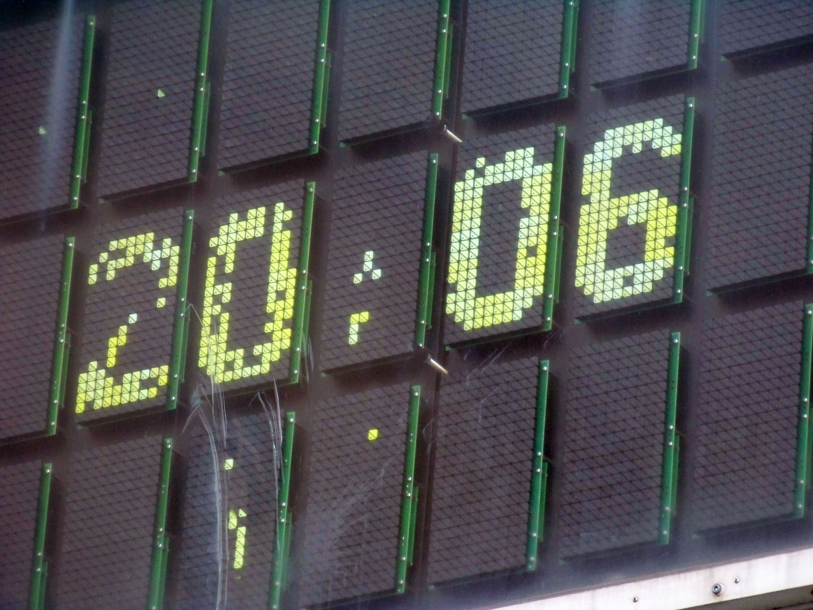 Prague-Smíchov, the Czech Republic. Hořejší nábřeží.